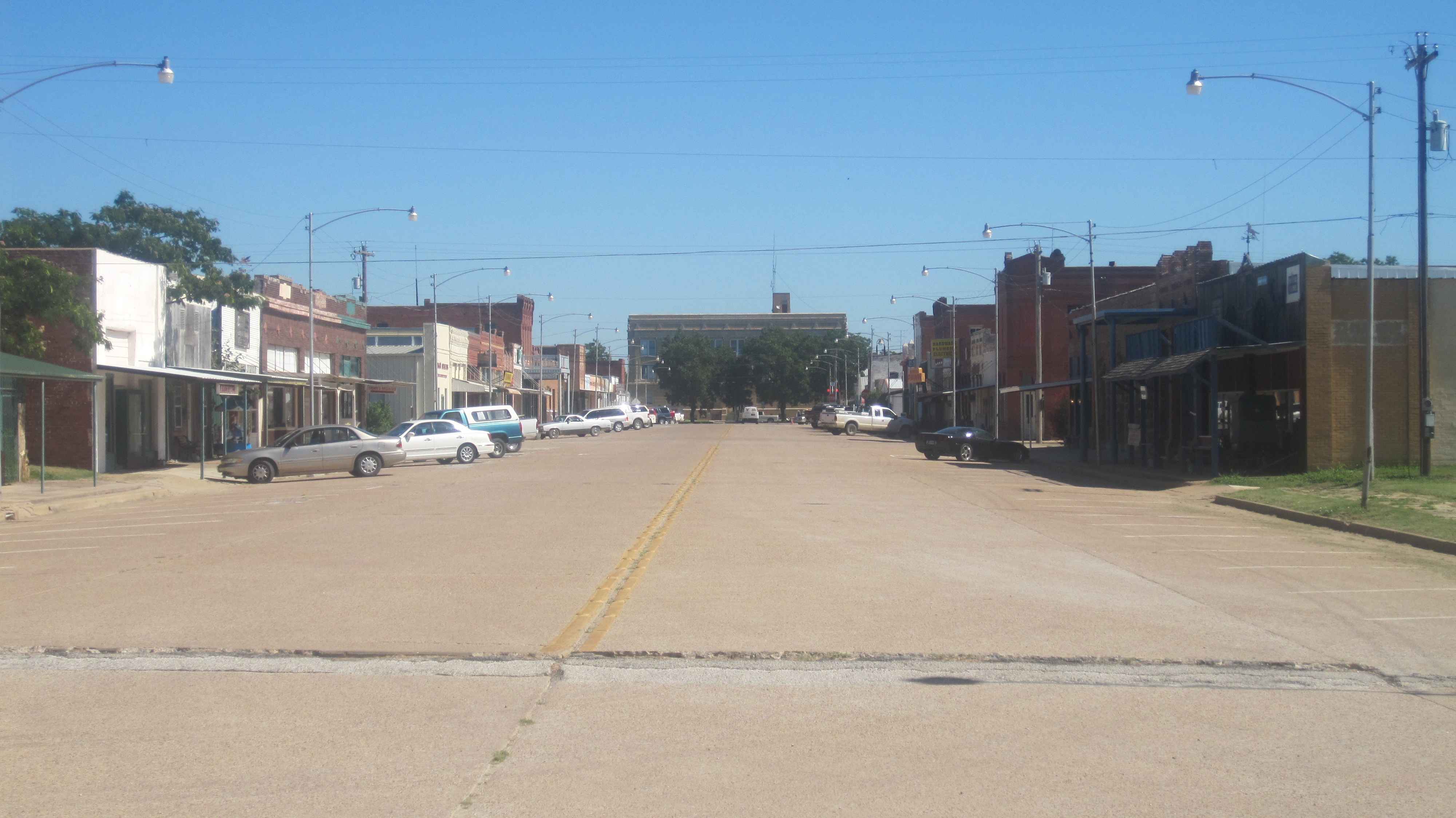 I took photo with Canon camera in Baird, TX.